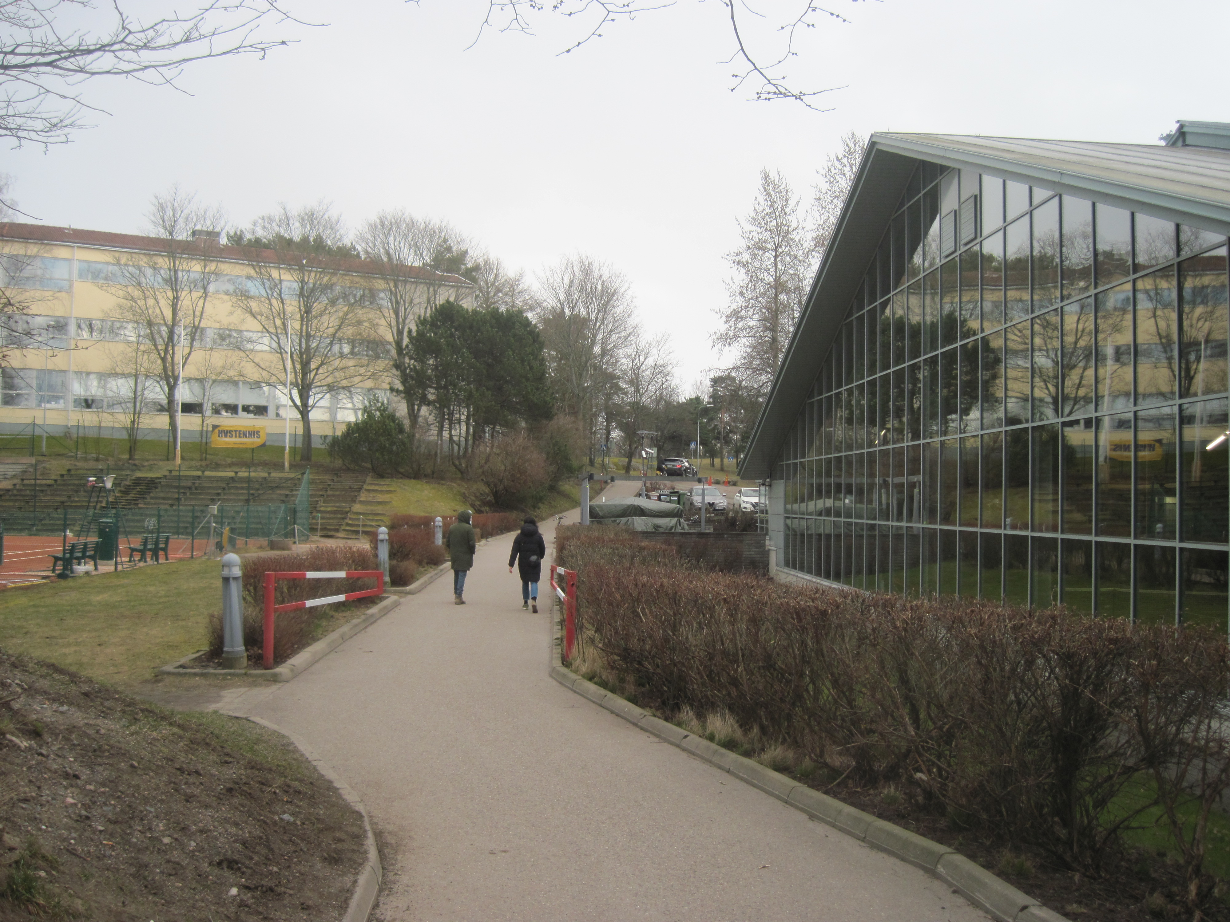 Taivallahti Tennis Center in Helsinki